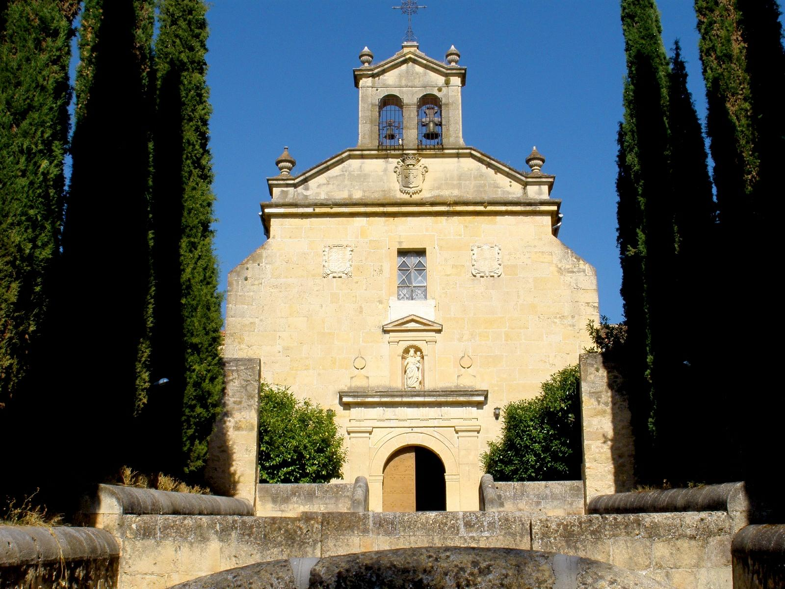 Convento de los Carmelitas Descalzos de Segovia (Castilla y León, España)